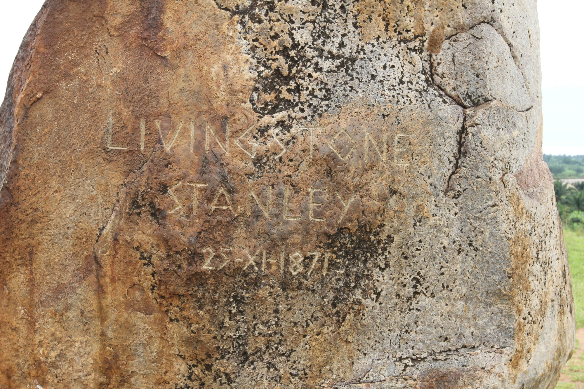 Livingstone-Stanley mounmnet engraving near Bujumbura city, in Burundi.